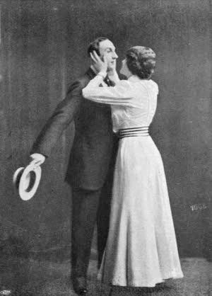 Swedish acting couple Olof and Frida Winnerstrand on stage 1908, as Valentine and Gloria, in George Bernard Shaw's play "Man kan aldrig veta" ("You Never Can Tell") at Vasateatern (the Vasa Theatre) in Stockholm.